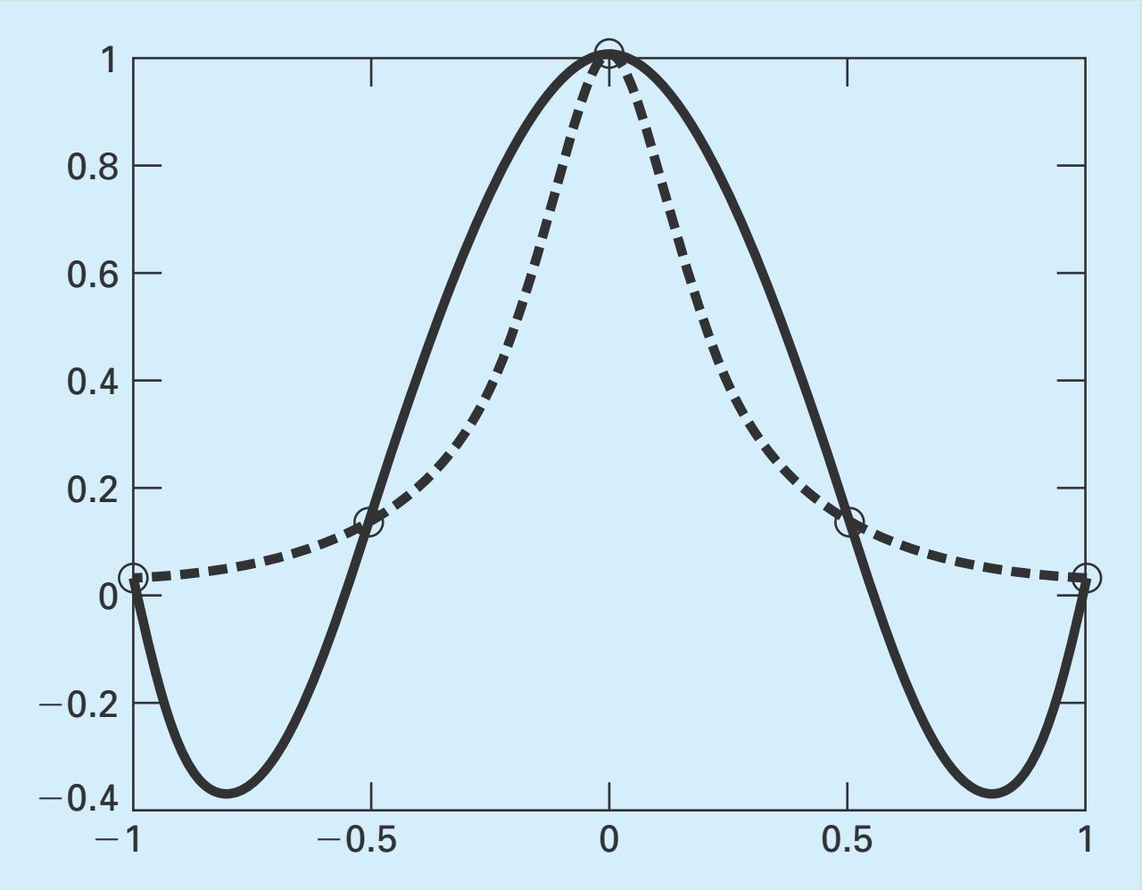 Comparison of Runge's function (dashed line) with a fourth-order polynomial fit to 5 points sampled from the function. [1]